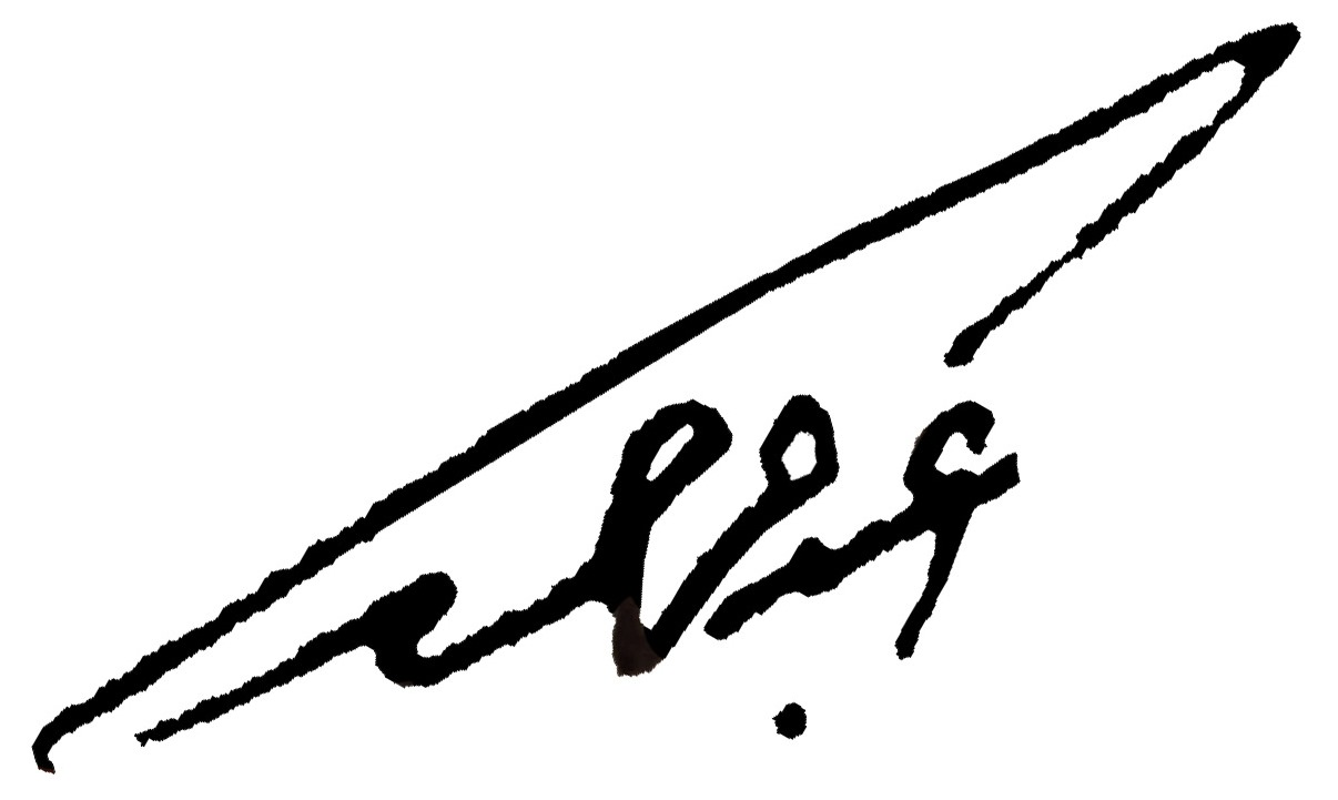 Signature of Majid Qodiriy